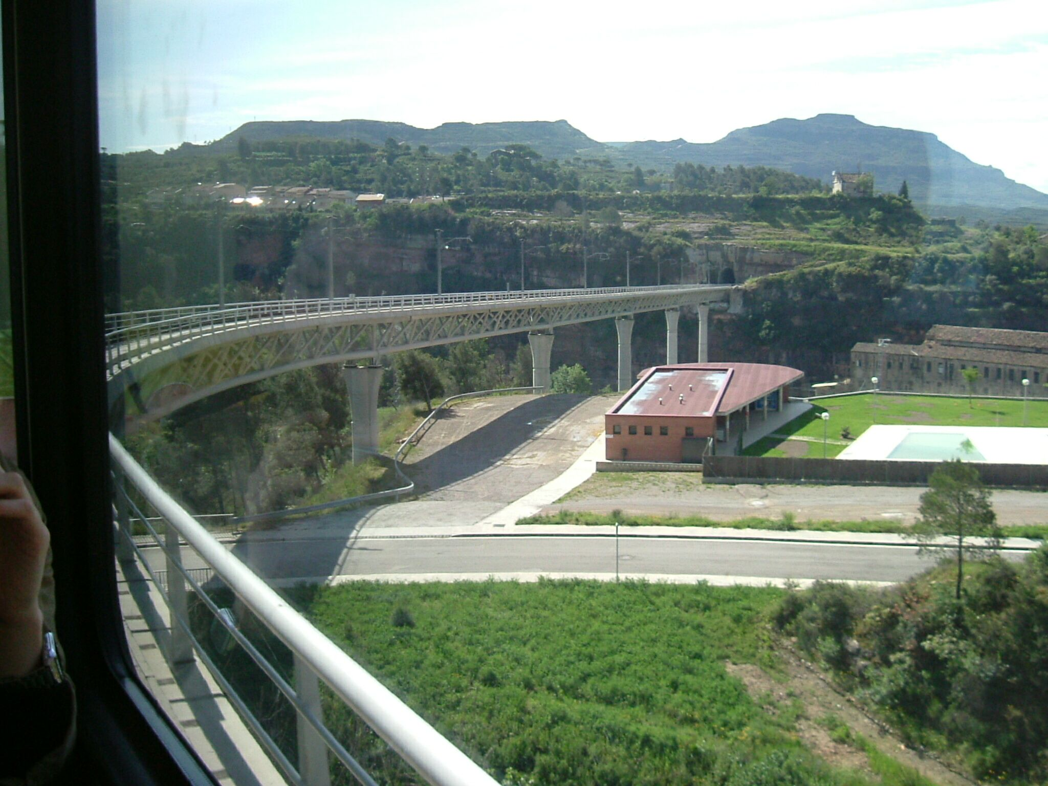 Montserrat (Spain) Rack Railway bridge